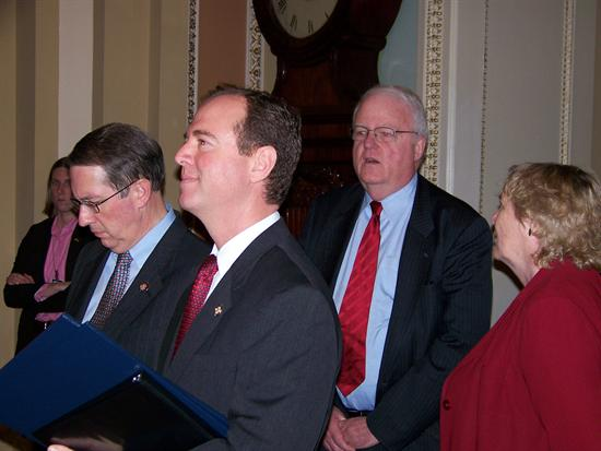 The Managers for the Impeachment trial of former US District Court Judge Samuel B. Kent are waiting to to take the Articles of Impeachment to the Senate. Caption provided by Congressman Jim Sensenbrenner's office: Taking Articles of Impeachment to Senate Congressman Sensenbrenner walks the Articles of Impeachment to the Senate